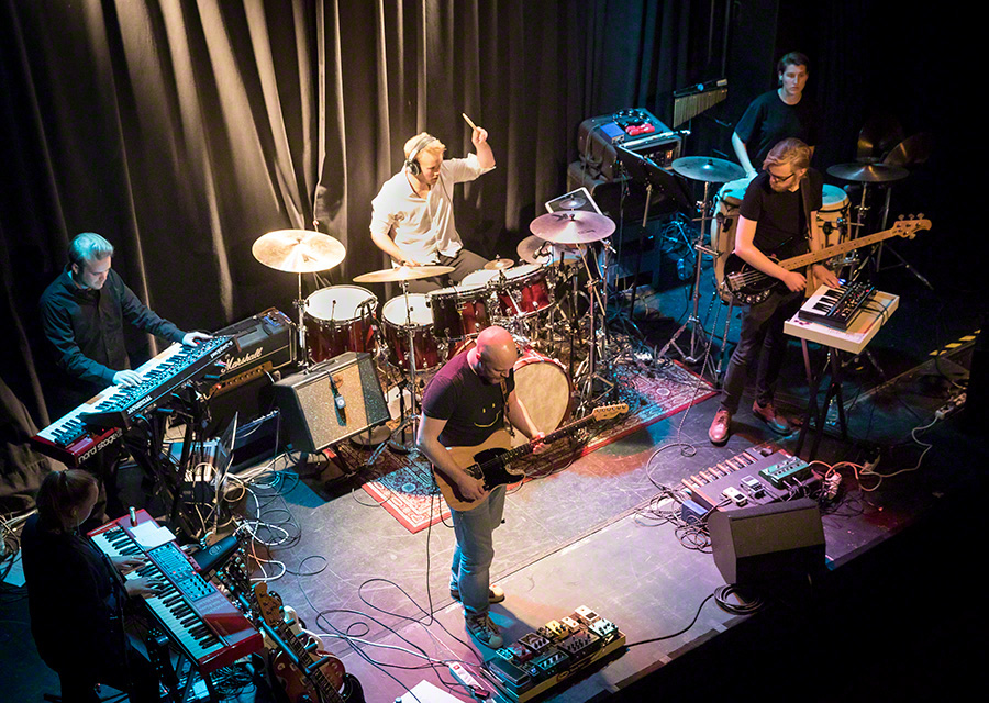 Pymlico at the Belleville stage of Cosmopolite. The concert took place on 15. October 2016 in Oslo. This marked the release of their forth album, "Meeting Point".Lineup:Stephan Hvinden (guitar)Axel Toreg Reite (bass)Øyvind Brøter (keyboard)Marie Færevaag (saxophone)Arild Brøter (drums)Oda Rydning (percussion)